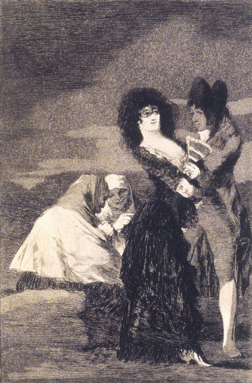 Part of the series Los Caprichos, a set of 80 aquatint prints created by the Spanish artist Francisco Jose de Goya in 1797 and 1798, and published as an album in 1799, no. 5.